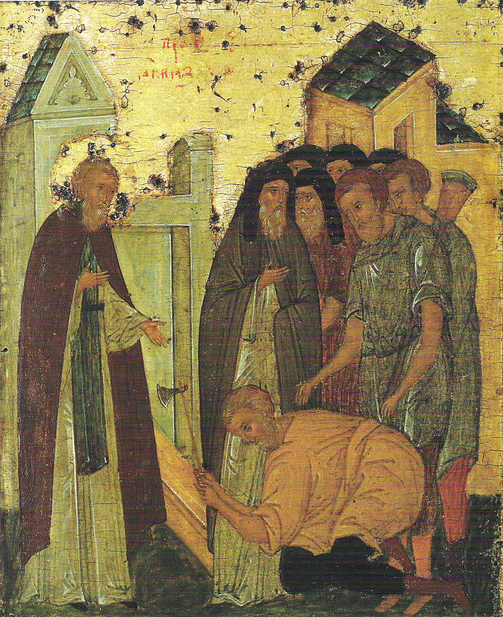 Stamp 8 from the icon of Dimitry Prilutsky by Dionisius, ca 1503. Dimitry foretelling the death of Dimitry Donskoy